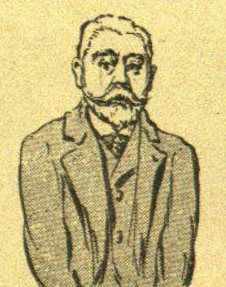 Josep Roig i Bergadà, in Cu-Cut magazine of 9.1.192